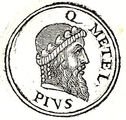 Quintus Caecilius Metellus Pius (ca 130 BC or 127 BC – 63 BC) was a pro-Sullan state figure.